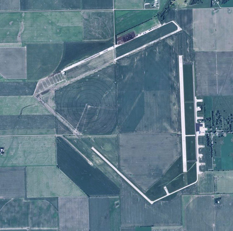 USGS digital orthophoto of Scribner State Airport in Nebraska